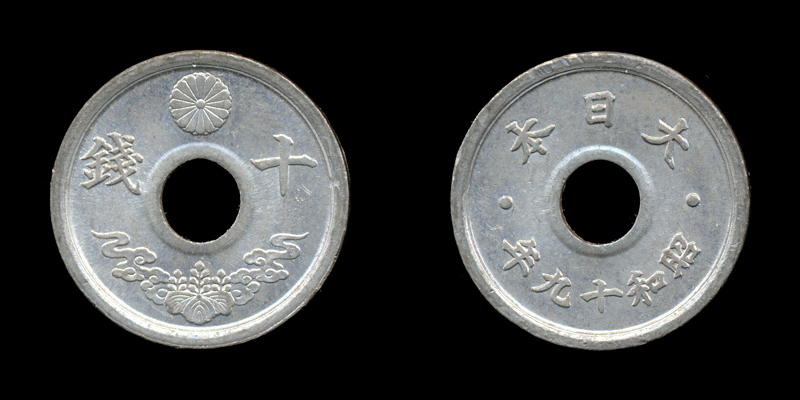 10sen-S19